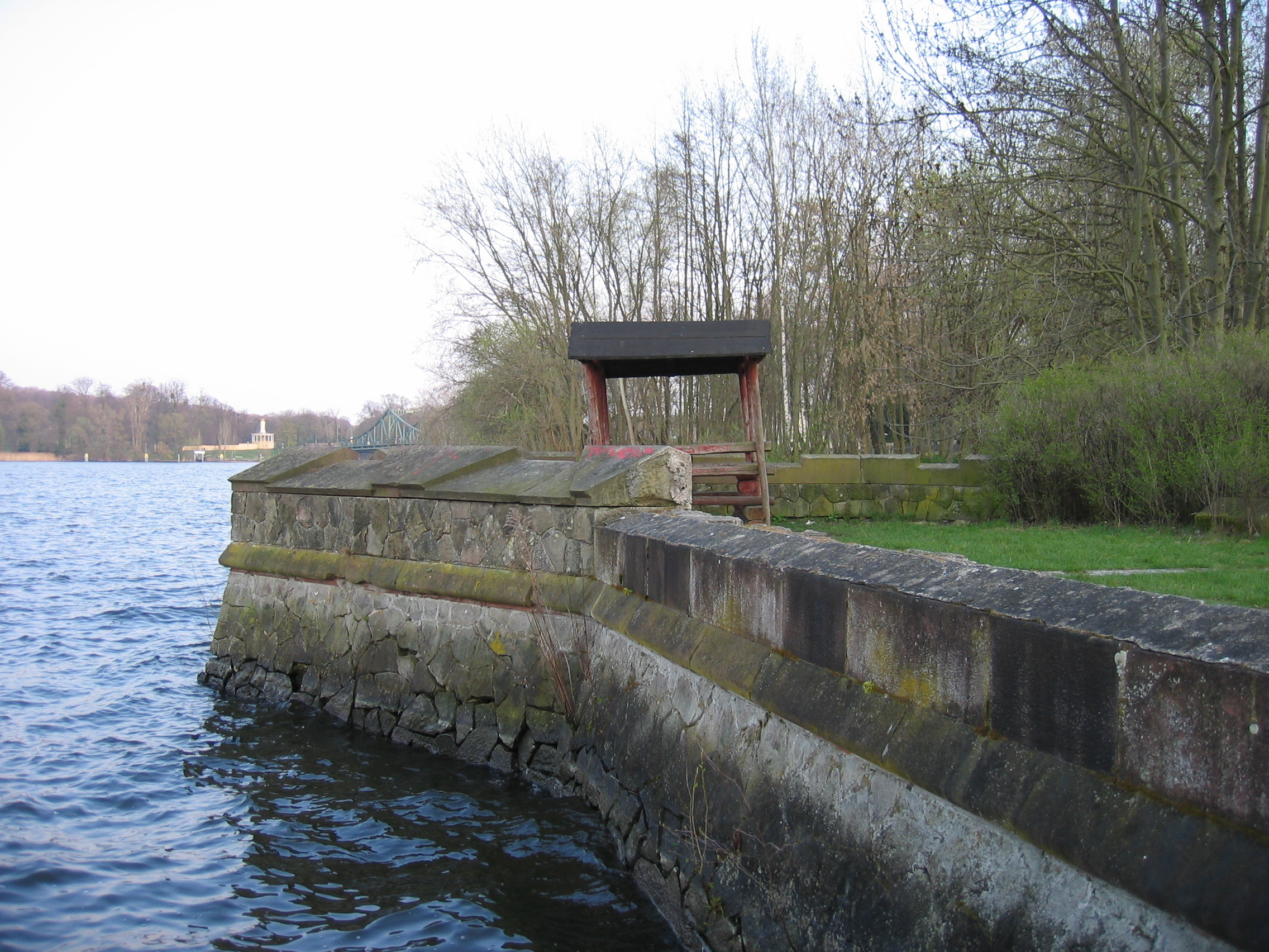 Remained quay wall with bastion of the sailors' station Kongsnæs in Potsdam, Germany